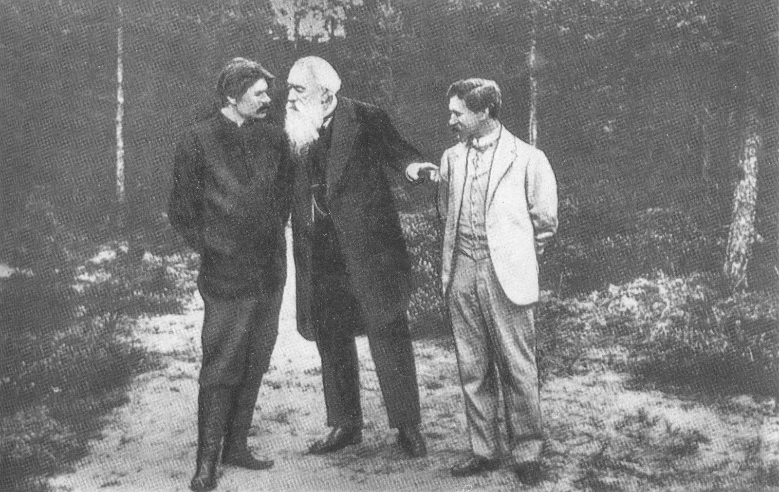 Maxim Gorky -Vladimir Stasov - Repin_in_Kuokkala